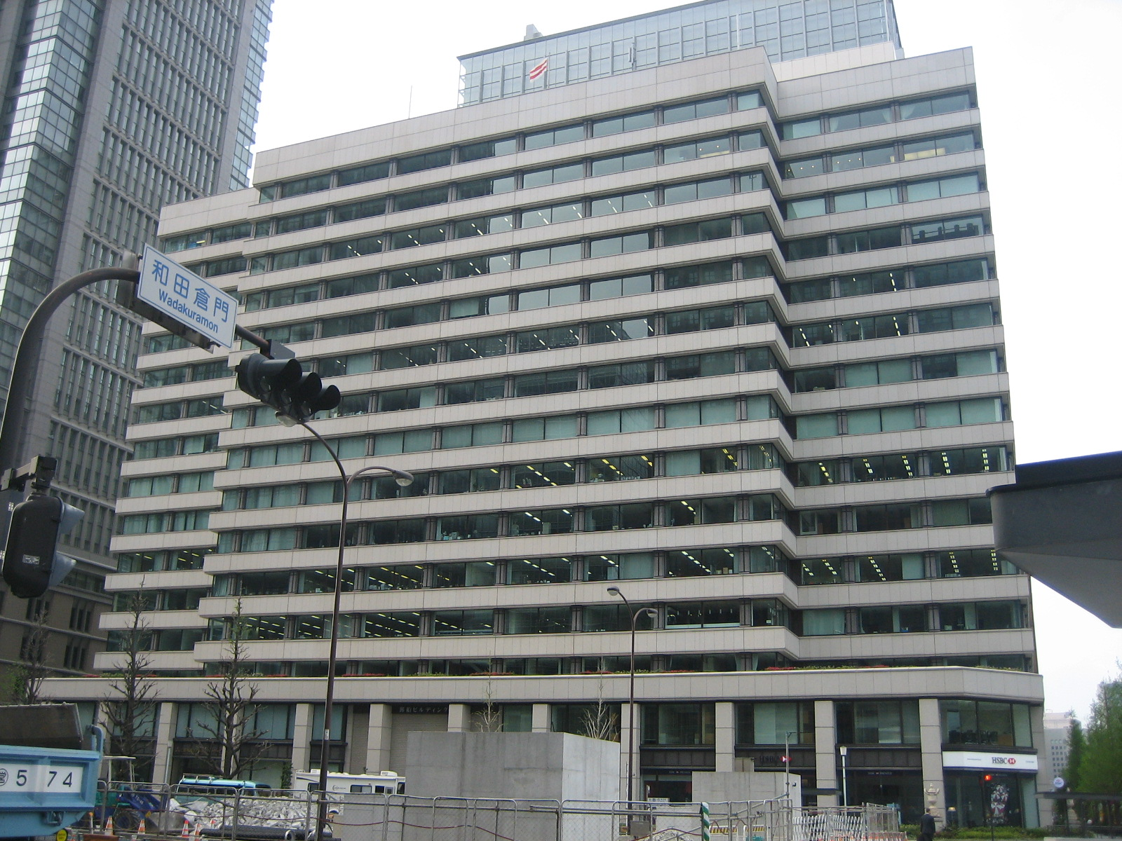 Yusen building in Tokyo, Japan